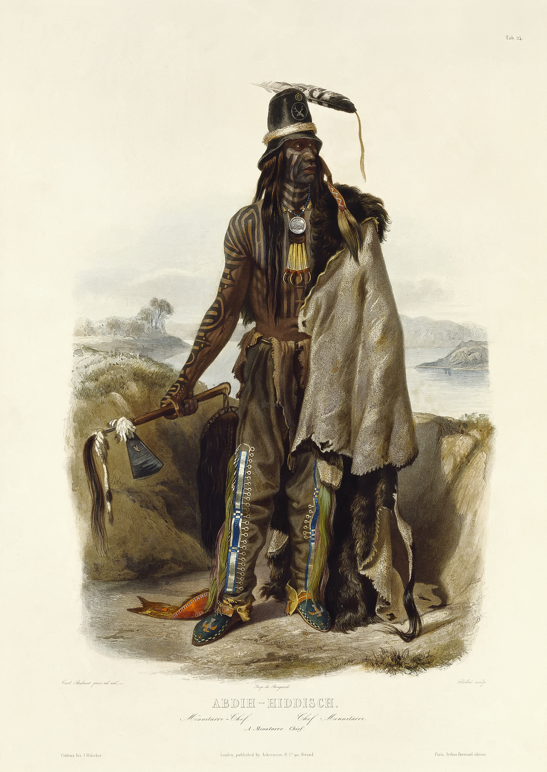 Karl Bodmer: Abdih-Hiddisch. A Minatarre Chief. Tableau 24. In: Maximilian zu Wied-Neuwied: Maximilian Prince of Wied’s Travels in the Interior of North America, during the years 1832–1834; Translation H. Evans Lloyd; Achermann & Comp., London 1843–1844.